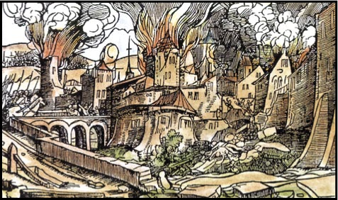 Great Prague fire of 1541